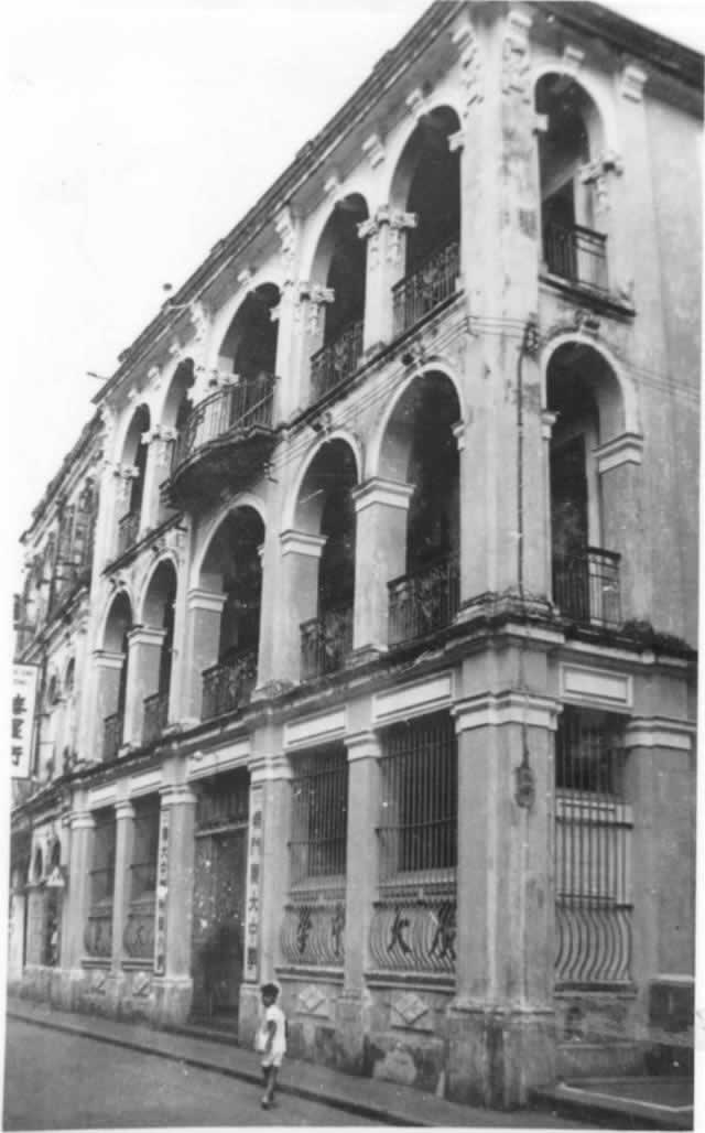 The former location of Kwong Tai Middle School Macau.